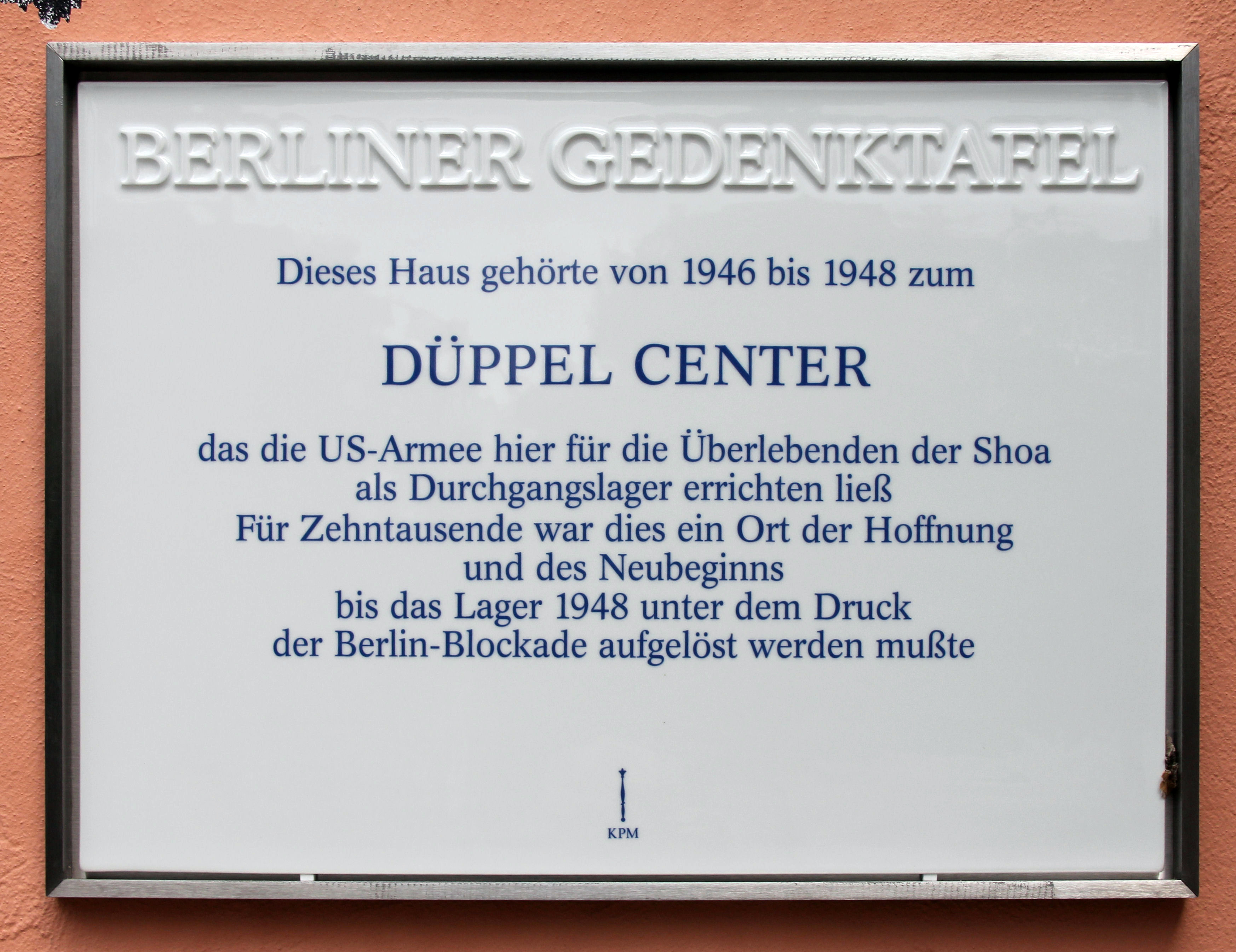 Berlin memorial plaque, Düppel Center, Potsdamer Chaussee 87, Berlin-Nikolassee, Germany